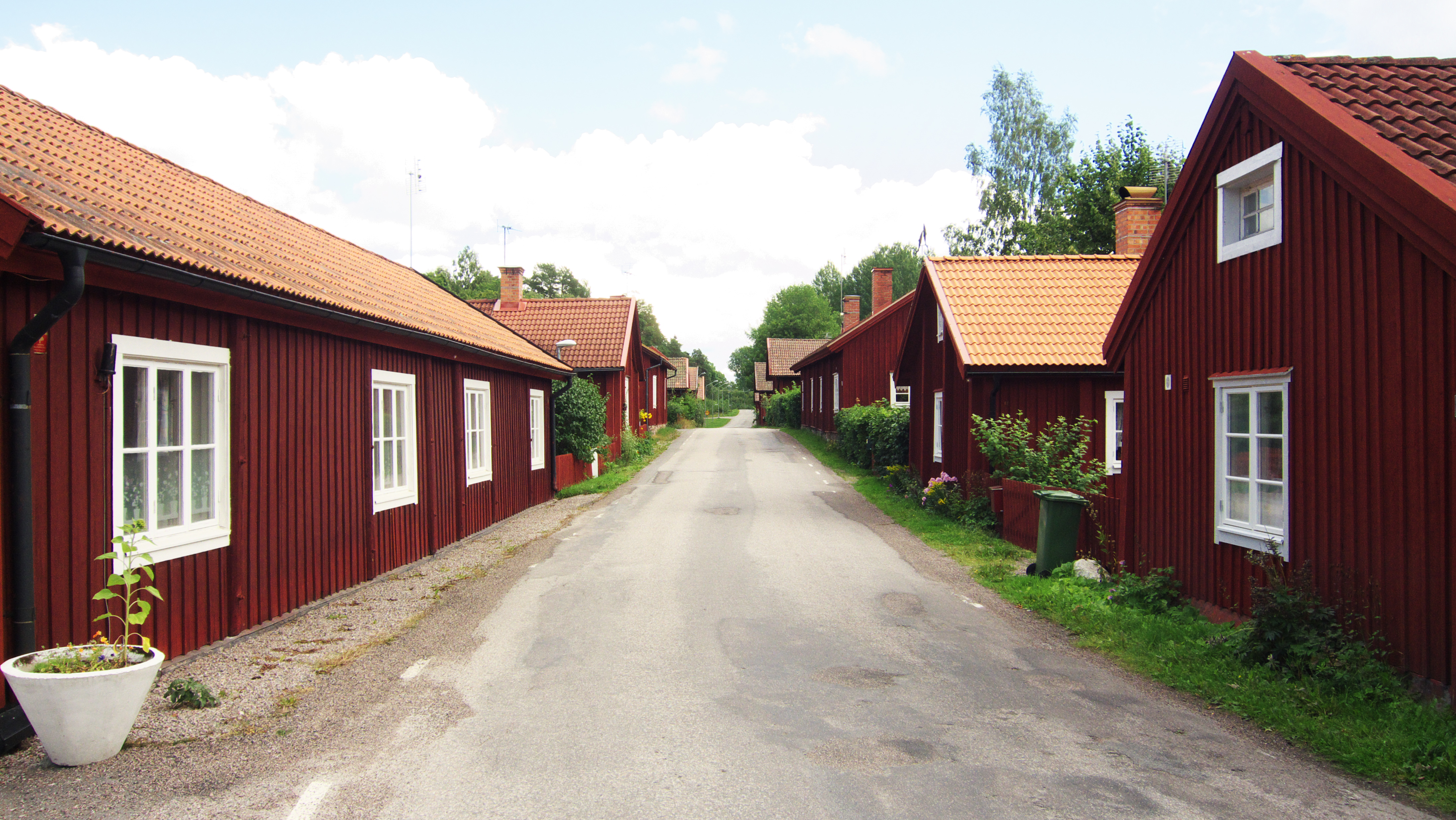 Former workers' houses in Tobo. Tobo is a locality and former Iron Mill situated in Tierp Municipality, Uppsala County, Sweden.